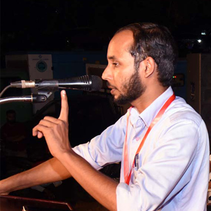 T.Shakir